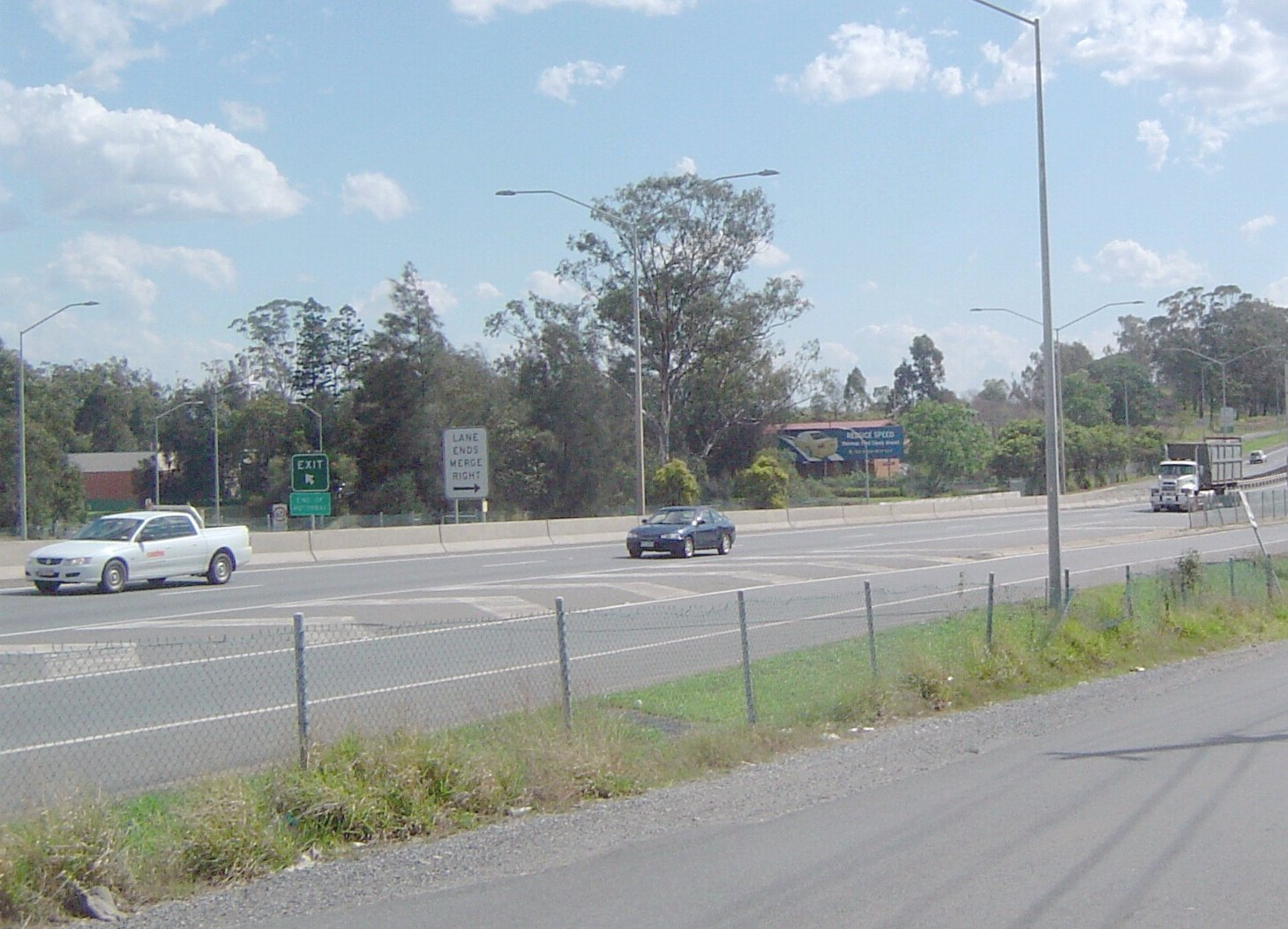 Ipswich Motorway, 2 lanes towards city with on ramp and service road at Oxley, Australia.